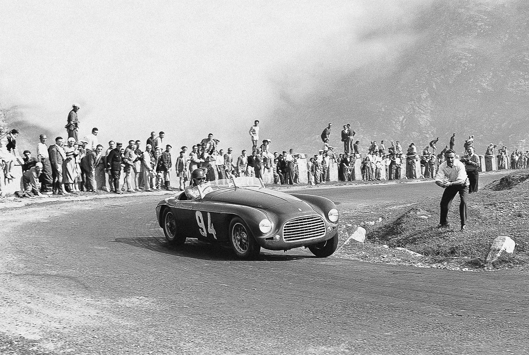 Vittorio Marzotto in Ferrari 275 S/340 America Touring barchetta s/n 0030MT at Susa-Moncenisio hillclimb on 22 July 1951. He ended in 5th place.[1]